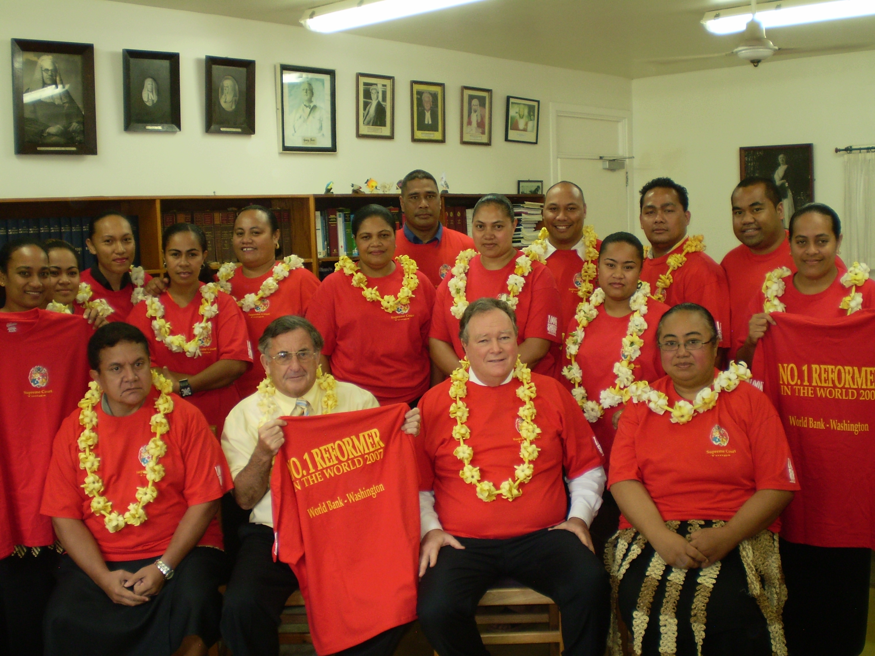 Supreme Court of Tonga, 2007. Photo: AusAID